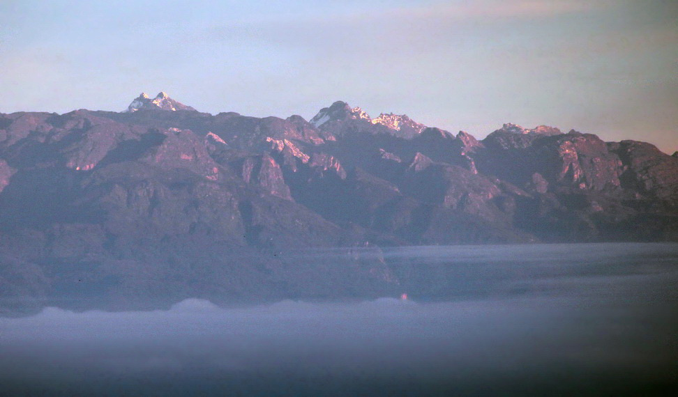 rare view: the otherwise cloud-covered Rwenzori Mountains in the morning hours with the twin summits of Mt. Stanley (Margherita Peak 5109 m, r.) then from left to right: Mount Baker (4842 m), Mount Speke (4890 m) and Mount Gessi (4715 m)